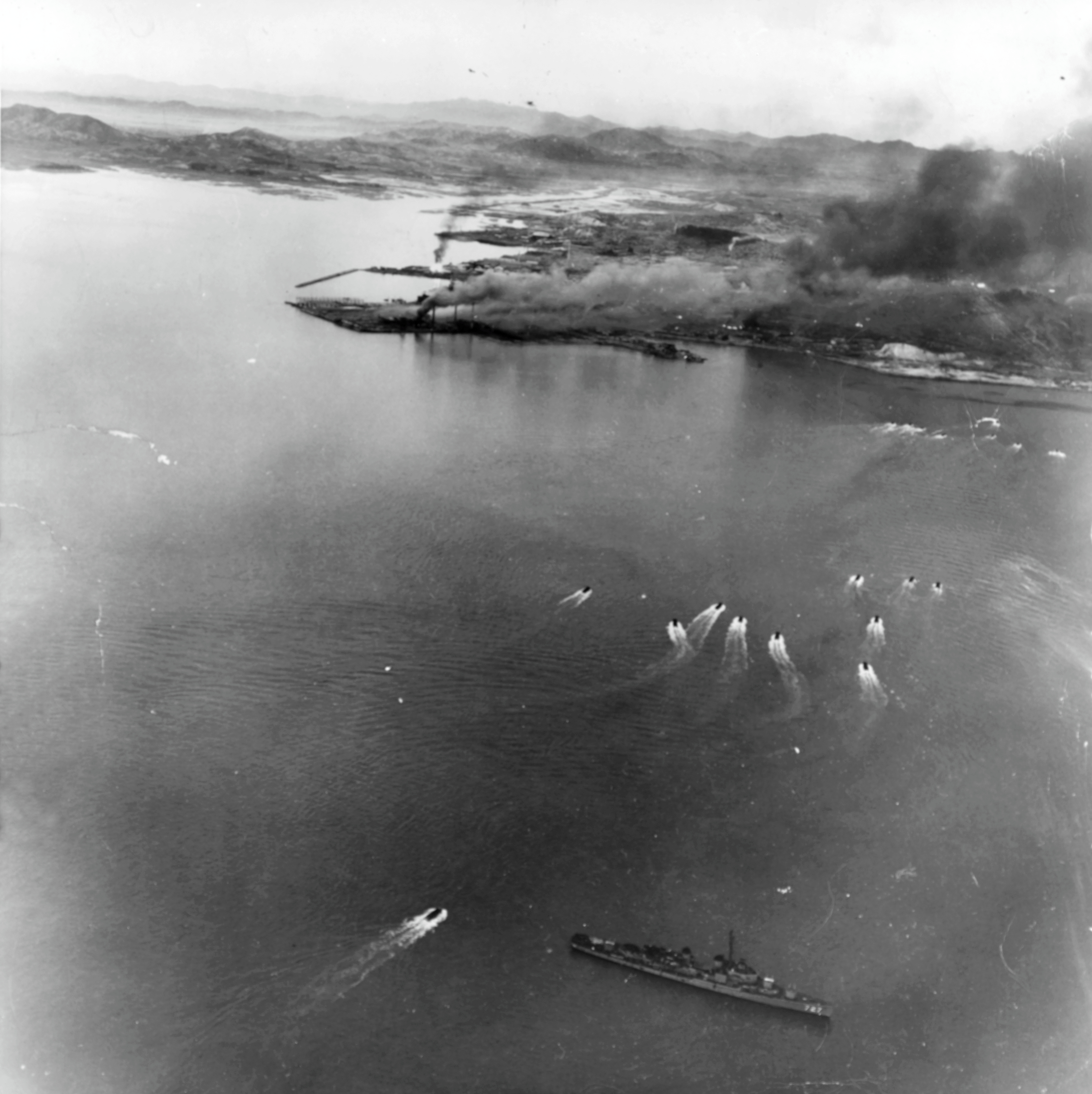 Landing craft of the first and second waves approach Red Beach during the United Nations amphibious landings at Inchon, Korea, on 15 September 1950. The United States Navy destroyer USS De Haven (DD-727) is at bottom center. Photographed from a Marine Air Group Twelve (MAG-12) aircraft from either VMF-214 or VMF-215.